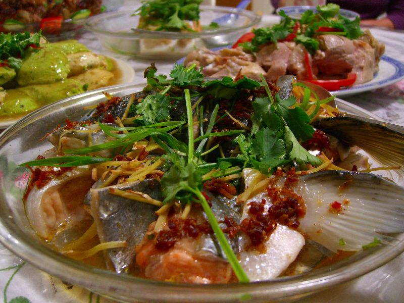 Original description: ;;A rather mediocre Steamed Salmon Head with XO Sauce. I didn't have enough XO Sauce on hand, but the fish head itself was really lovely. Bits of smooth flesh and bit you can suck and slurp! :) Including the eyes!